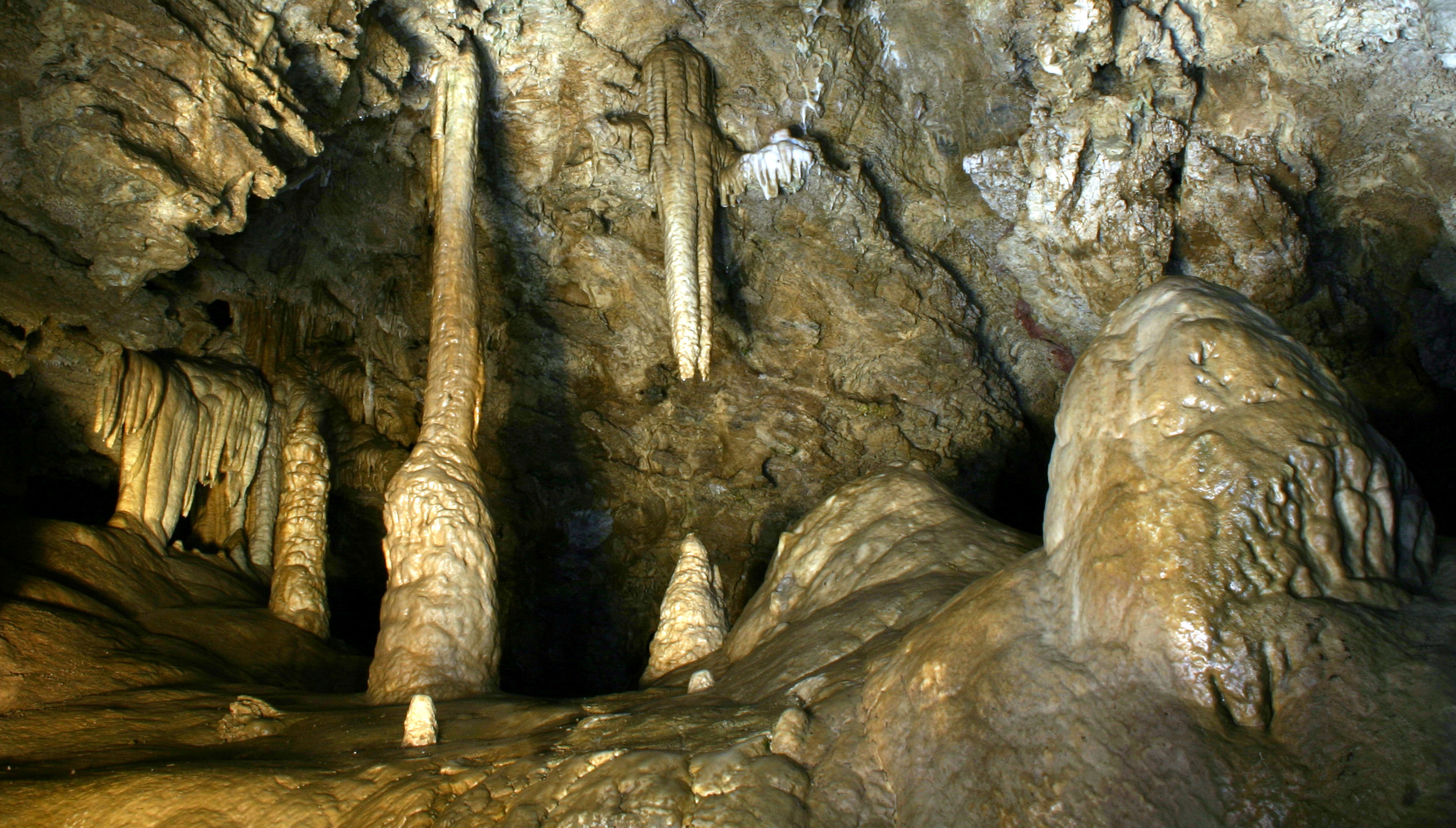 Miller's Chapel exhibits some of the cave's largest formations. Central to this room are a column and a stalactite-stalagmite duo that may eventually join together if given enough time.